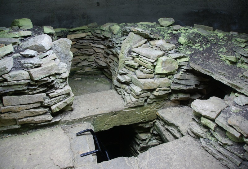 Taversöe Tuick Chambered Cairn, Rousay, Orkney, Scotland. Interior of the upper chamber.